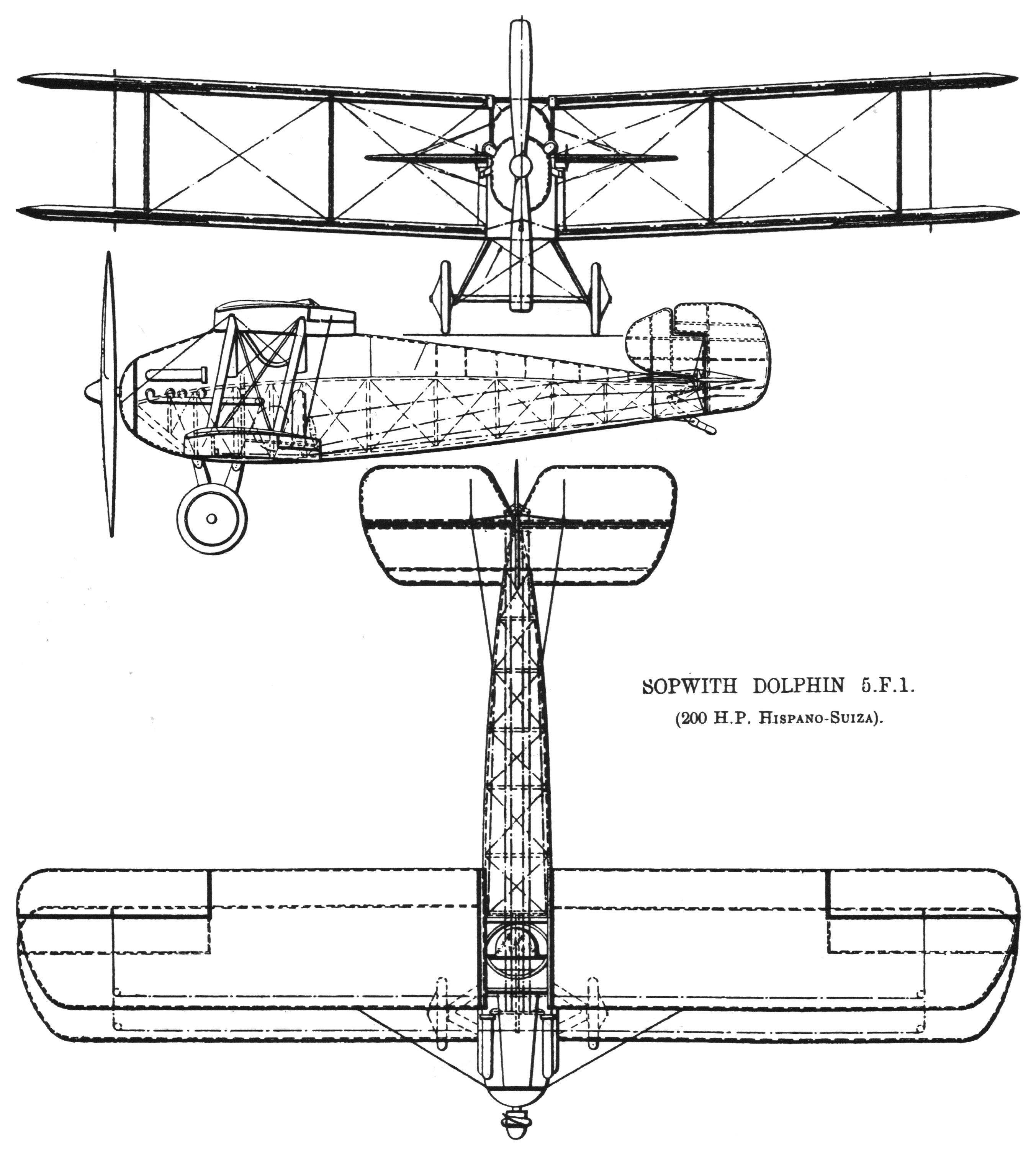 Sopwith 5.F.1 Dolphin rigging drawing